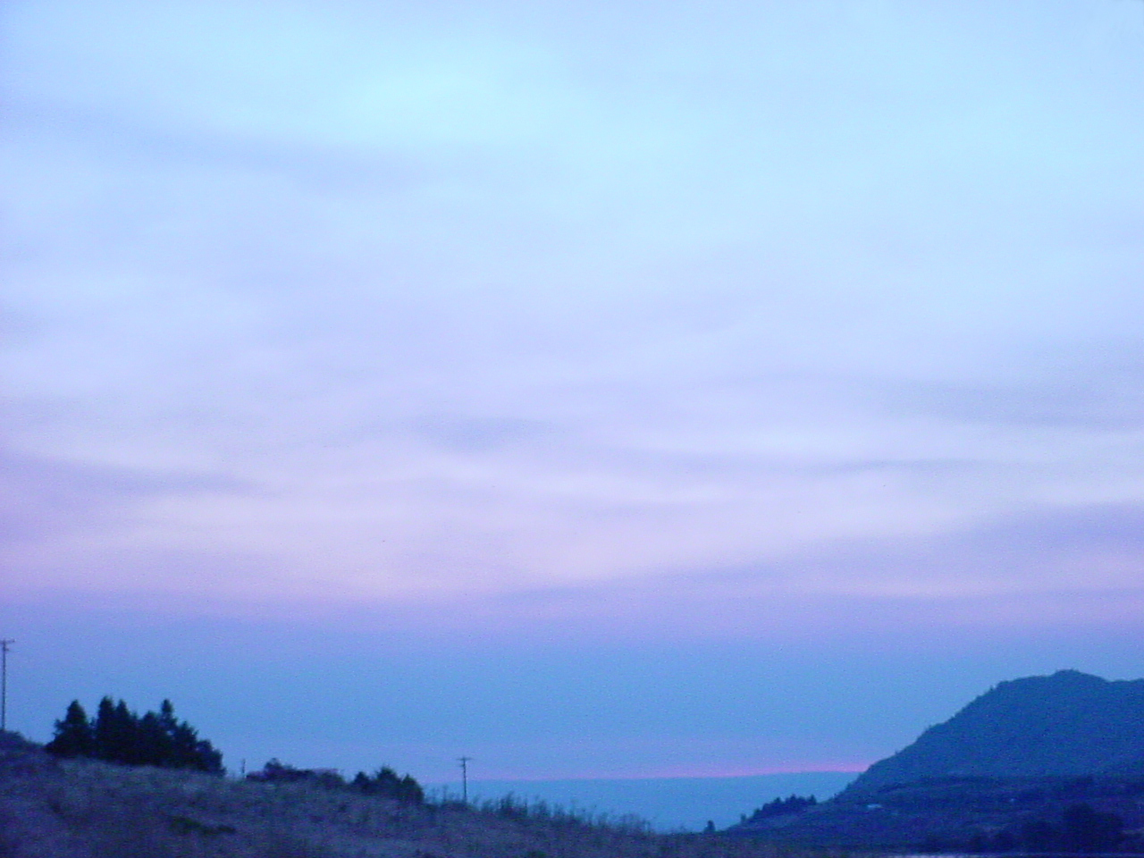 Dawn in Washington, United States